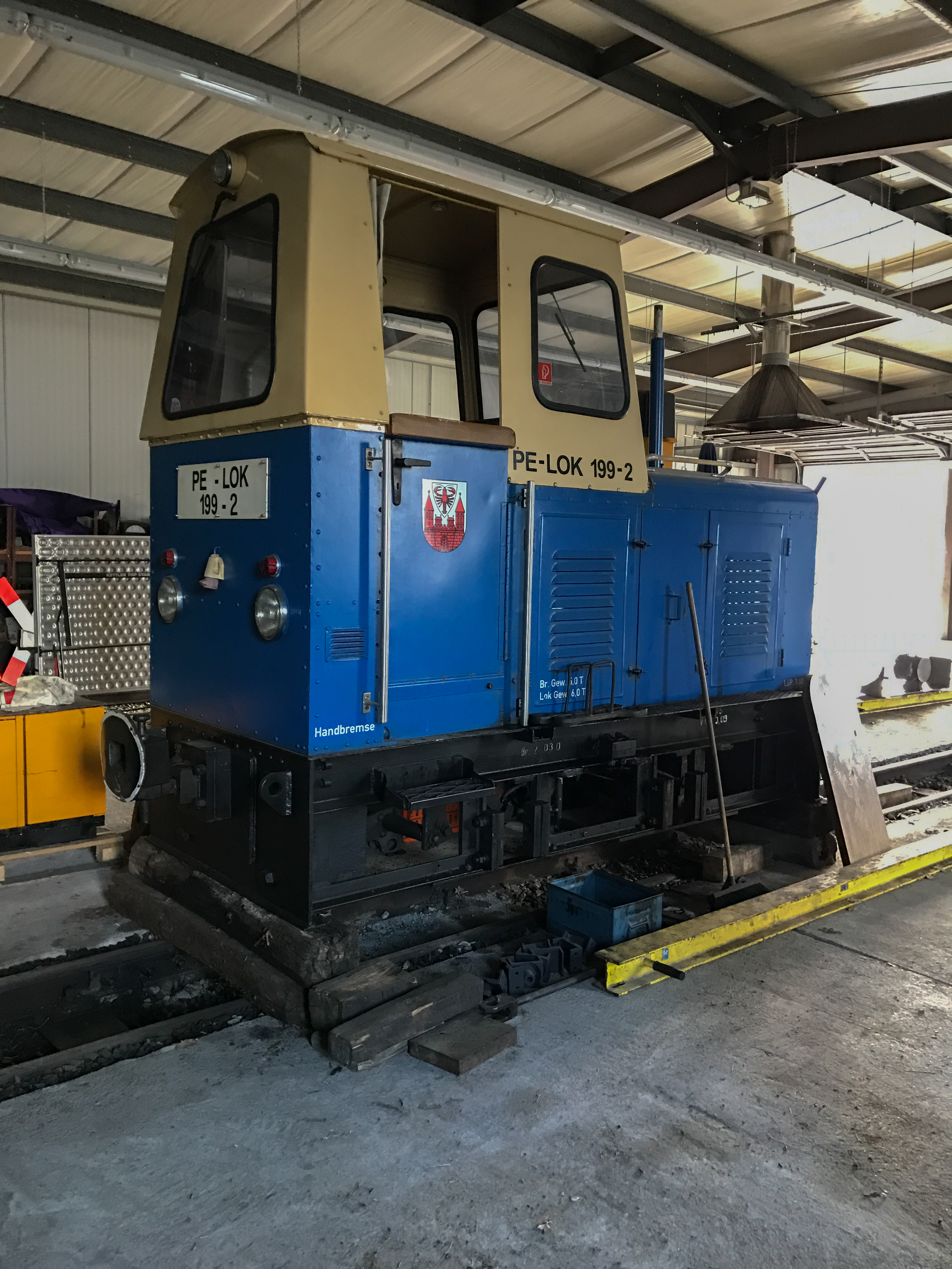 Henschel D1056/34 Formerly Ko 0409 of the Waldeisenbahn Muskau and before that with the MPSB. Origially 34PS but rebuilt at Cottbus with a 40PS motor. The former Pioneereisenbahn but still many roles for young railfans. It's a decent run (2.1km) and has a nice variety of motive power.